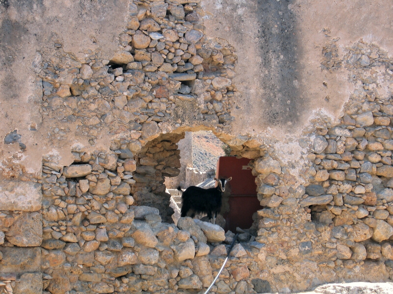 Foinix (Foenix), Chania, Crete. About 500 m south-southwest of Loutro. Settlement from the Bronze Age to the Byzantine period.